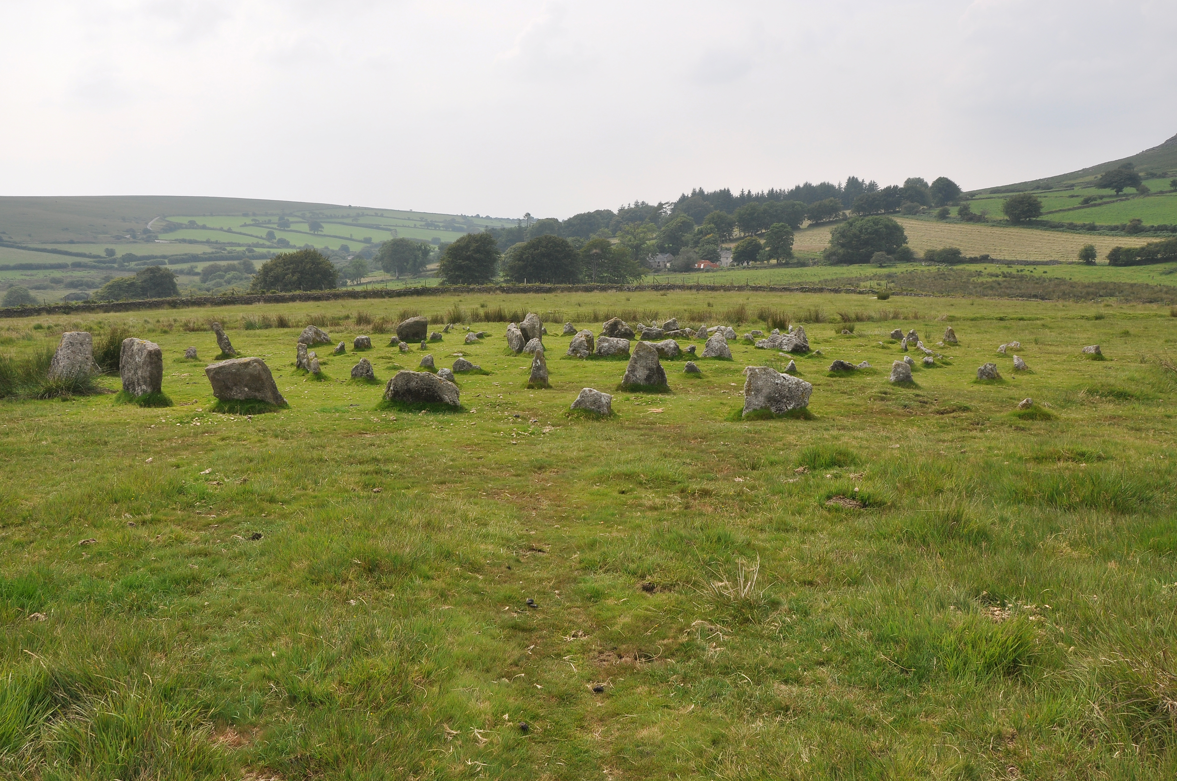 The concentric stone circles on Yellowmead Down, near Sheepstor, on Dartmoor.